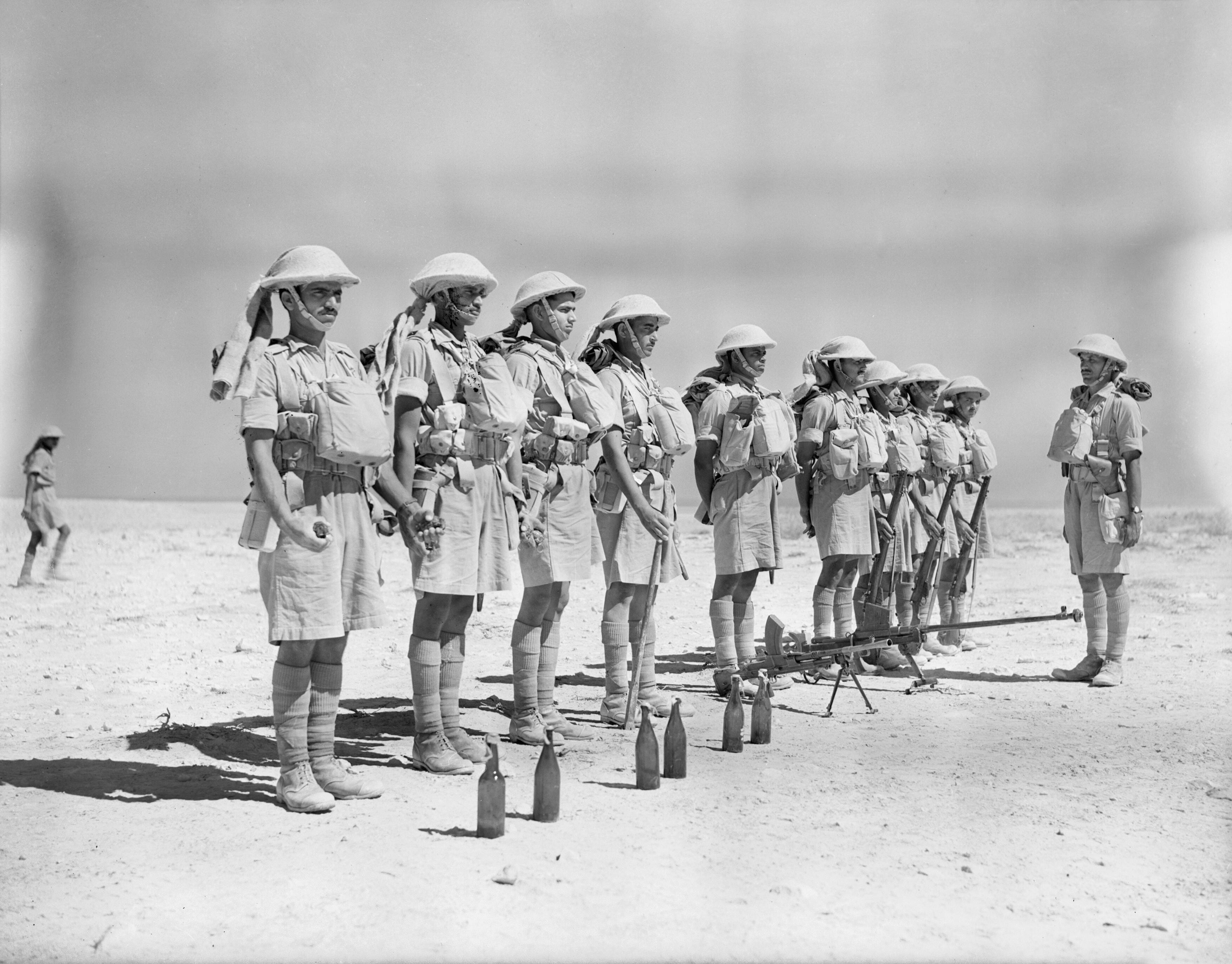 Indian troops in North Africa parade with a Boys anti-tank rifle and 'Molotov cocktail' petrol bombs, 6 October 1940. Indian troops parade with anti-tank weapons - a Boys anti-tank rifle and 'Molotov cocktails', 6 October 1940.